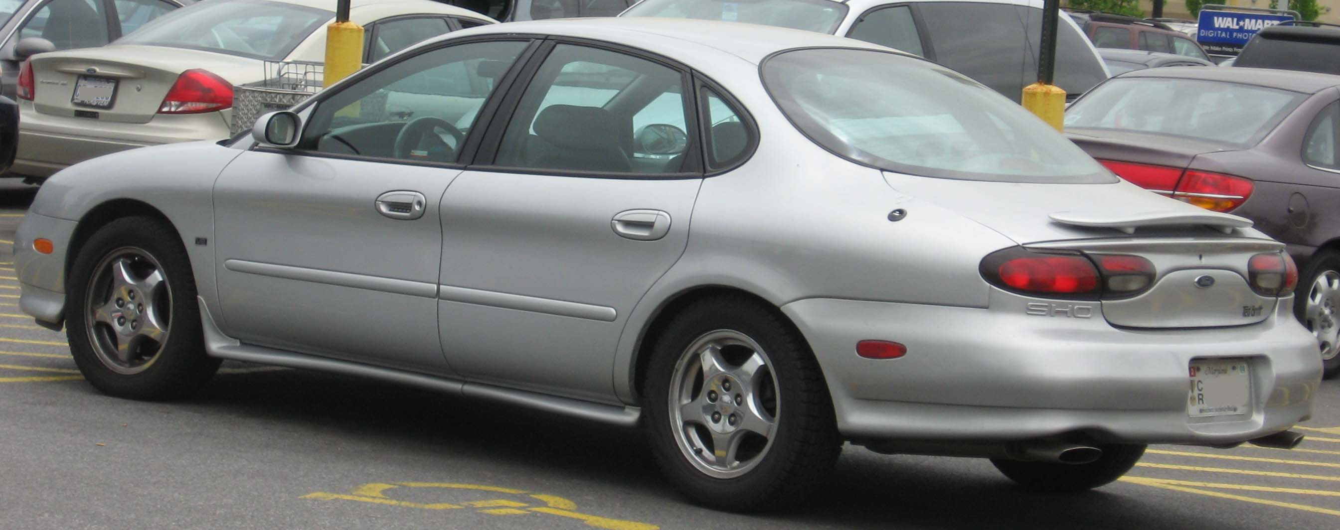 1996-1999 Ford Taurus photographed in USA.